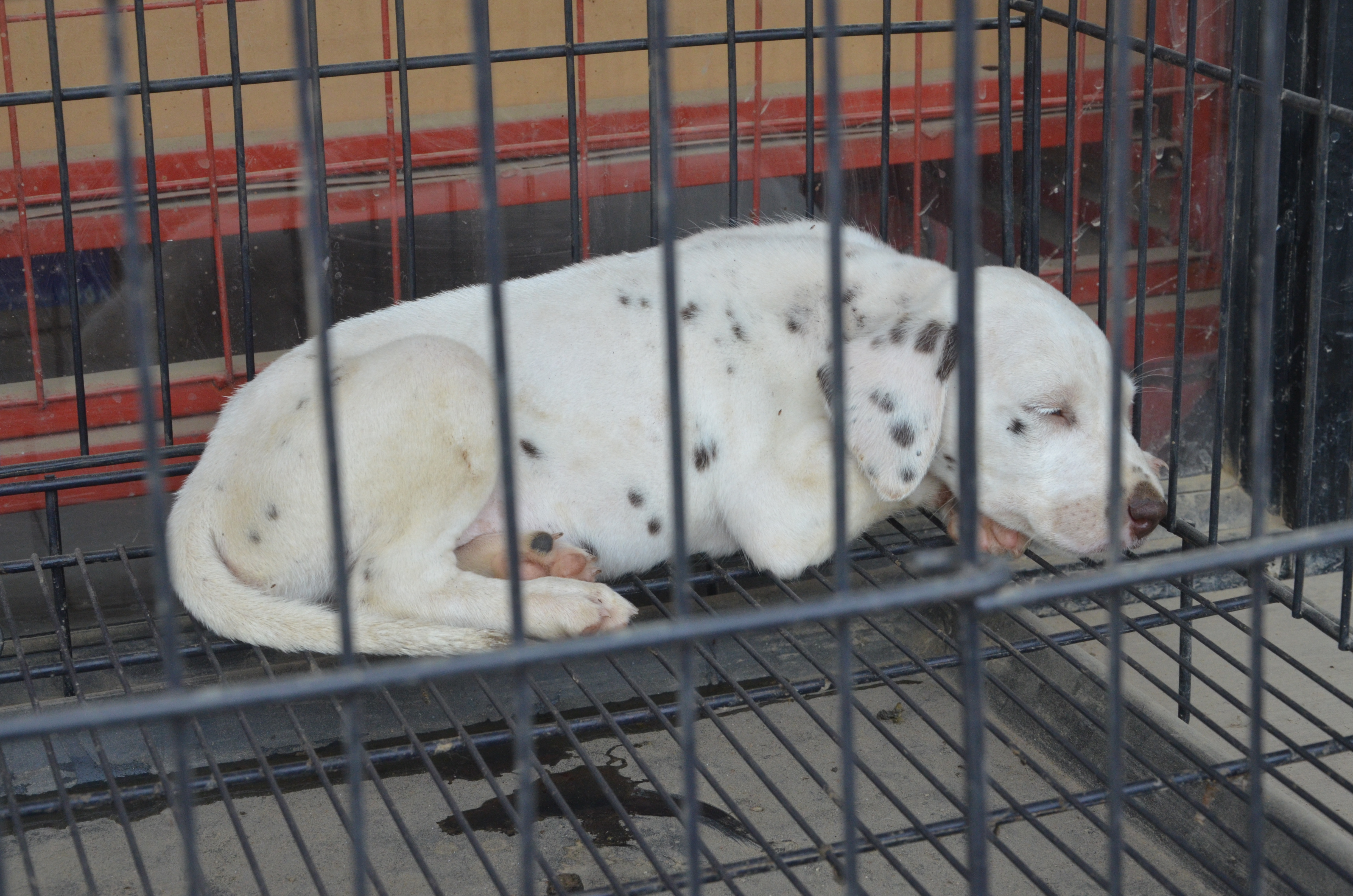 A dog inside a cage kept at kennel shop for selling. नेपाली: एक कुत्ता बेचनको लागि केनेल पसलमा पिंजरे भित्र राखियो।